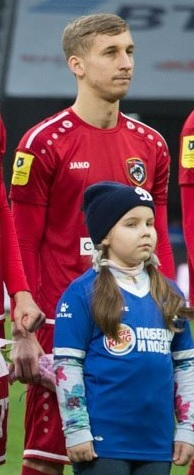 Oleksandr Kapliyenko with FC Tambov before the game against FC Dynamo Moscow.